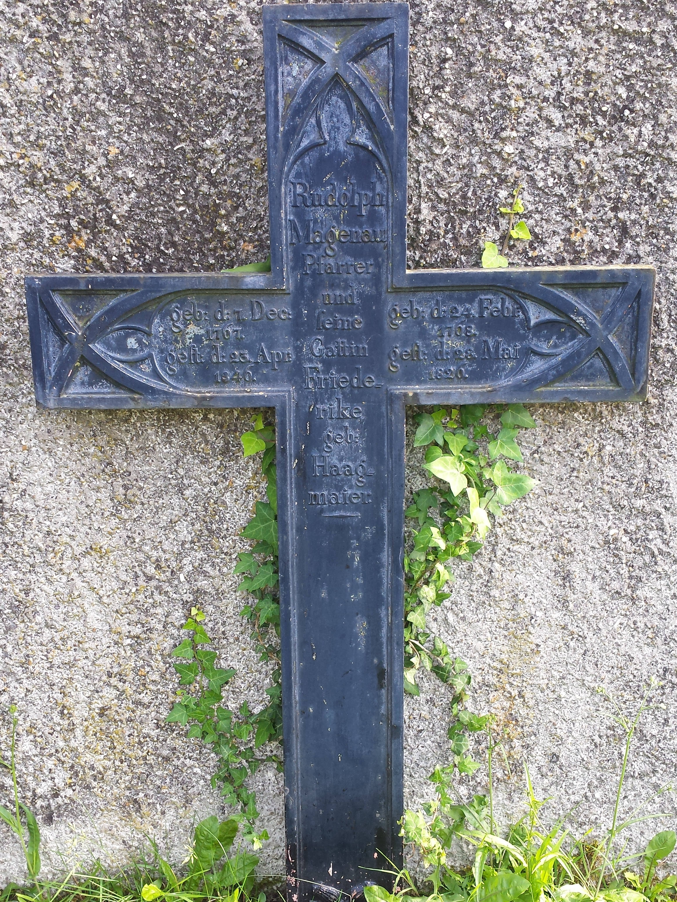 Grave cross of Rudolf Magenau